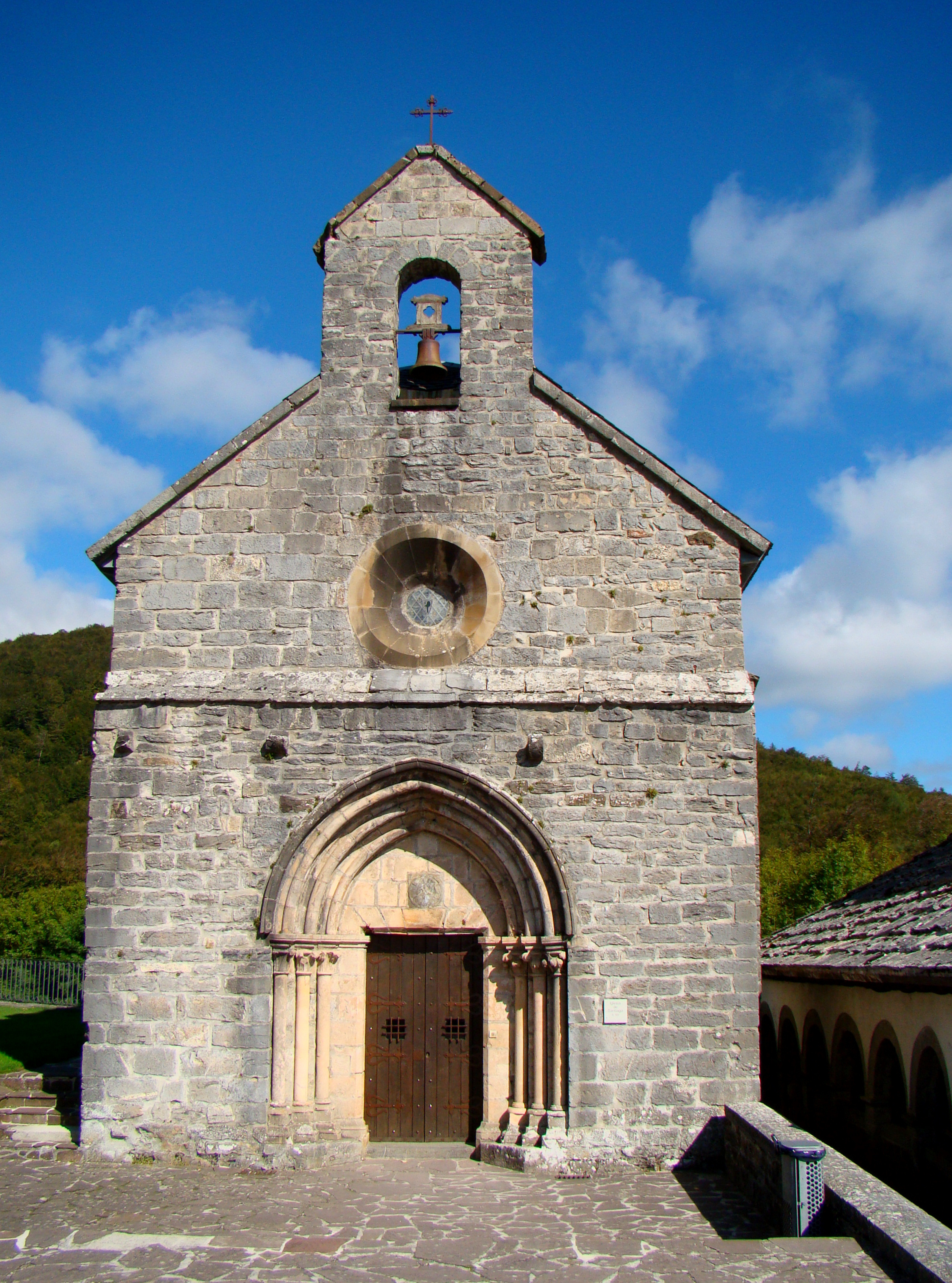 The small church in Roncesvalles, Navarre, Spain.